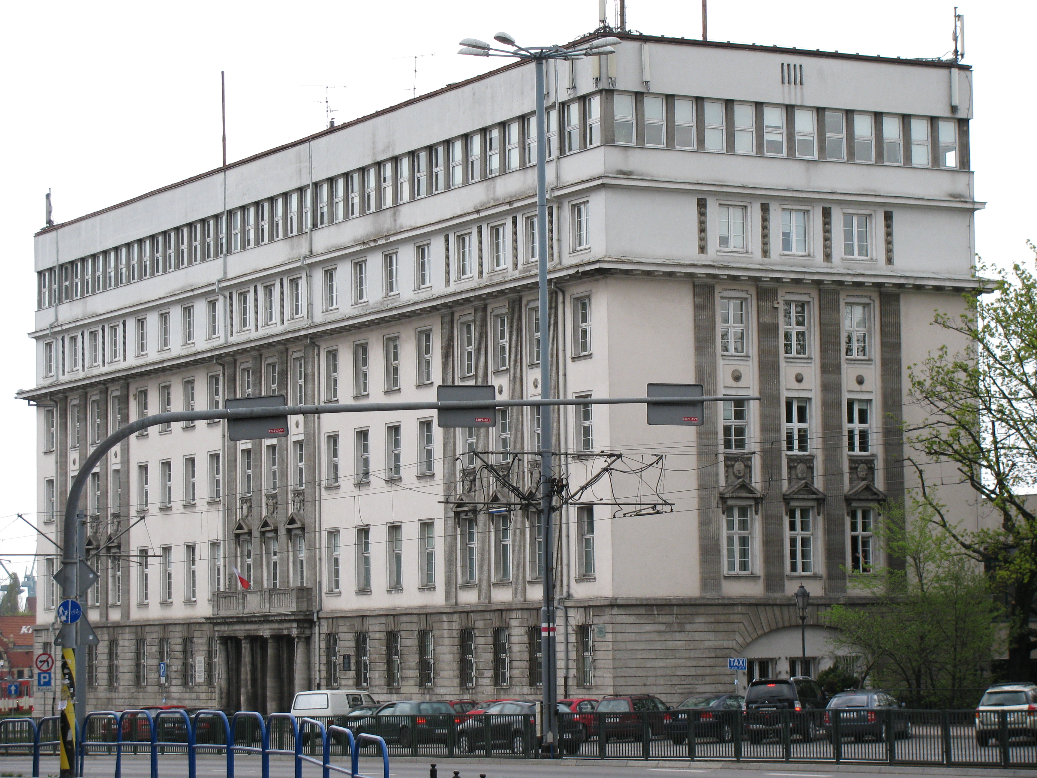 Ex house of the Polish United Workers' Party, Gdańsk (Poland).